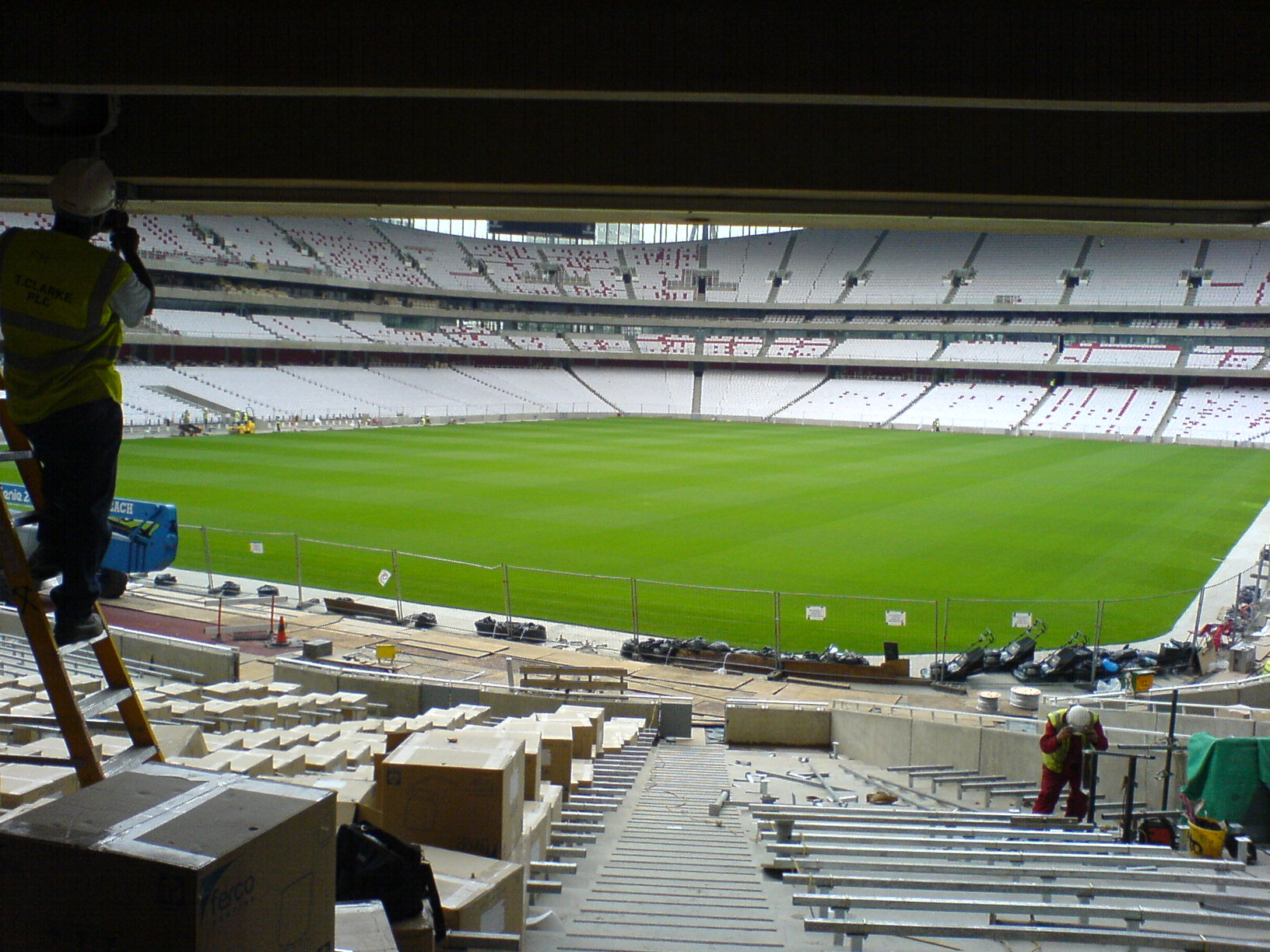 Interior of the Emirates Stadium whilst under construction